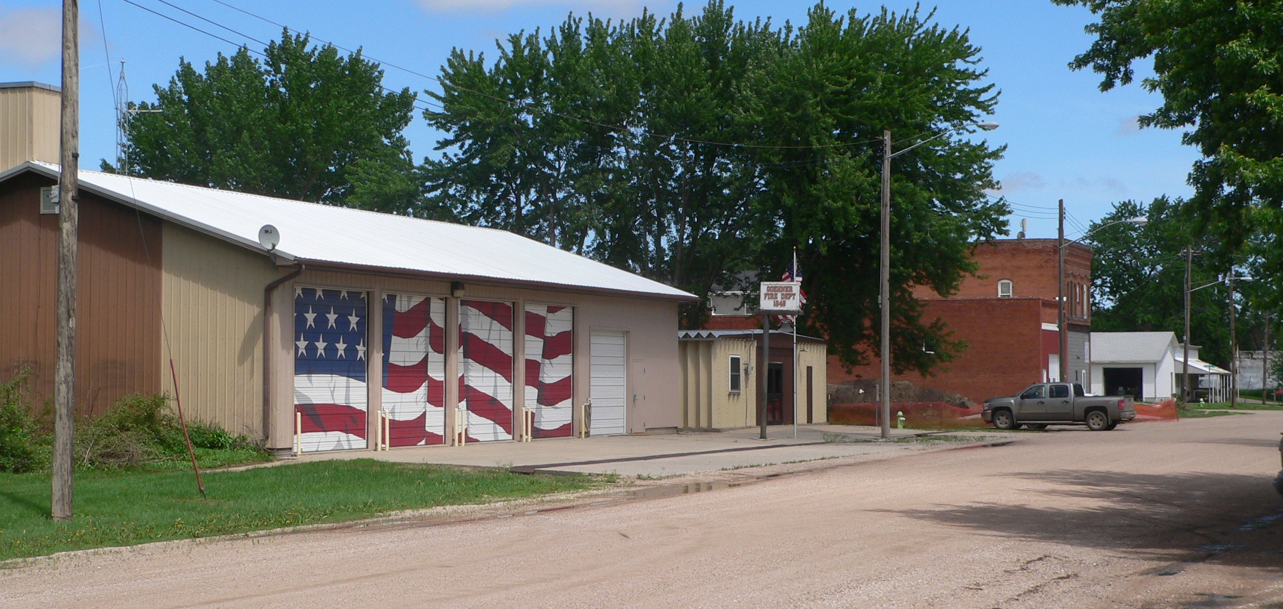 Downtown Goehner, Nebraska: west side of May Street, looking southwest from about John Street.